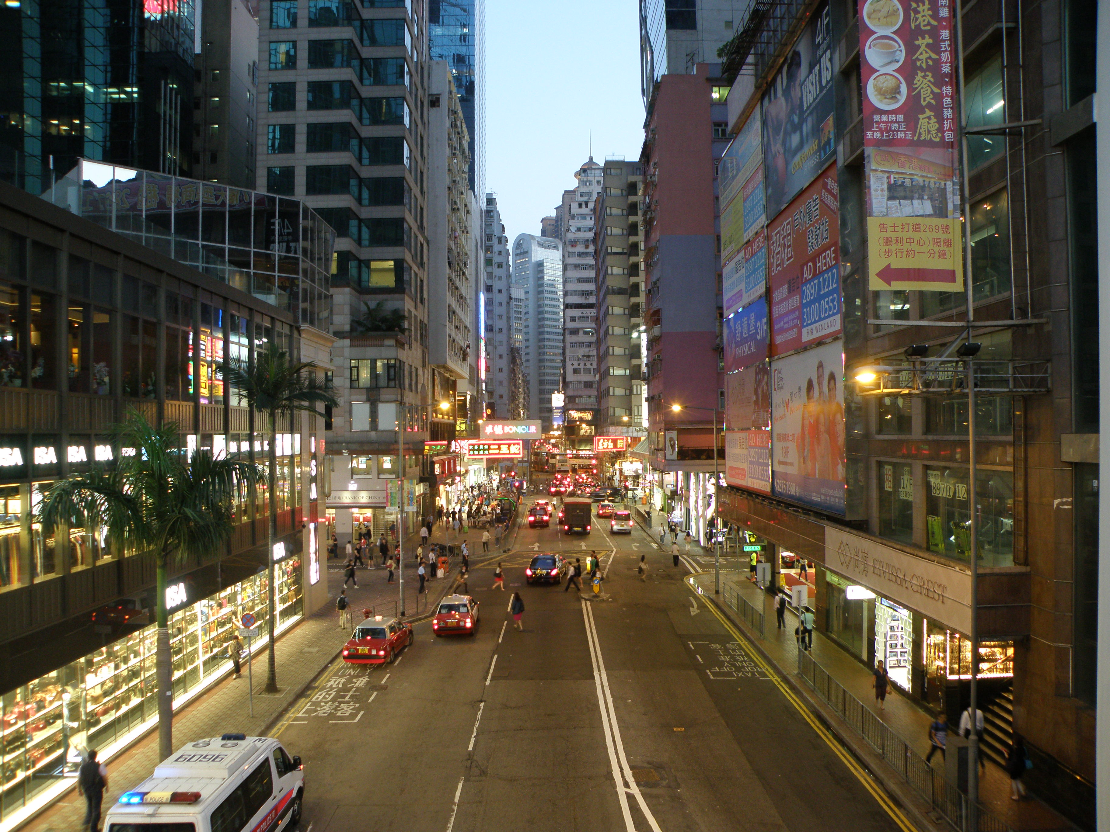 Percival Street in Causeway Bay, Hong Kong.